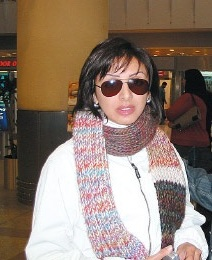 Angham at Kuweit airport in 2005